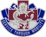 Distinctive Unit Insignia of the 28th Combat Support Hospital, United States Army. The insignia was originally granted to the 28th Surgical Hospital in March 1970, but was later adopted by the 28th CSH